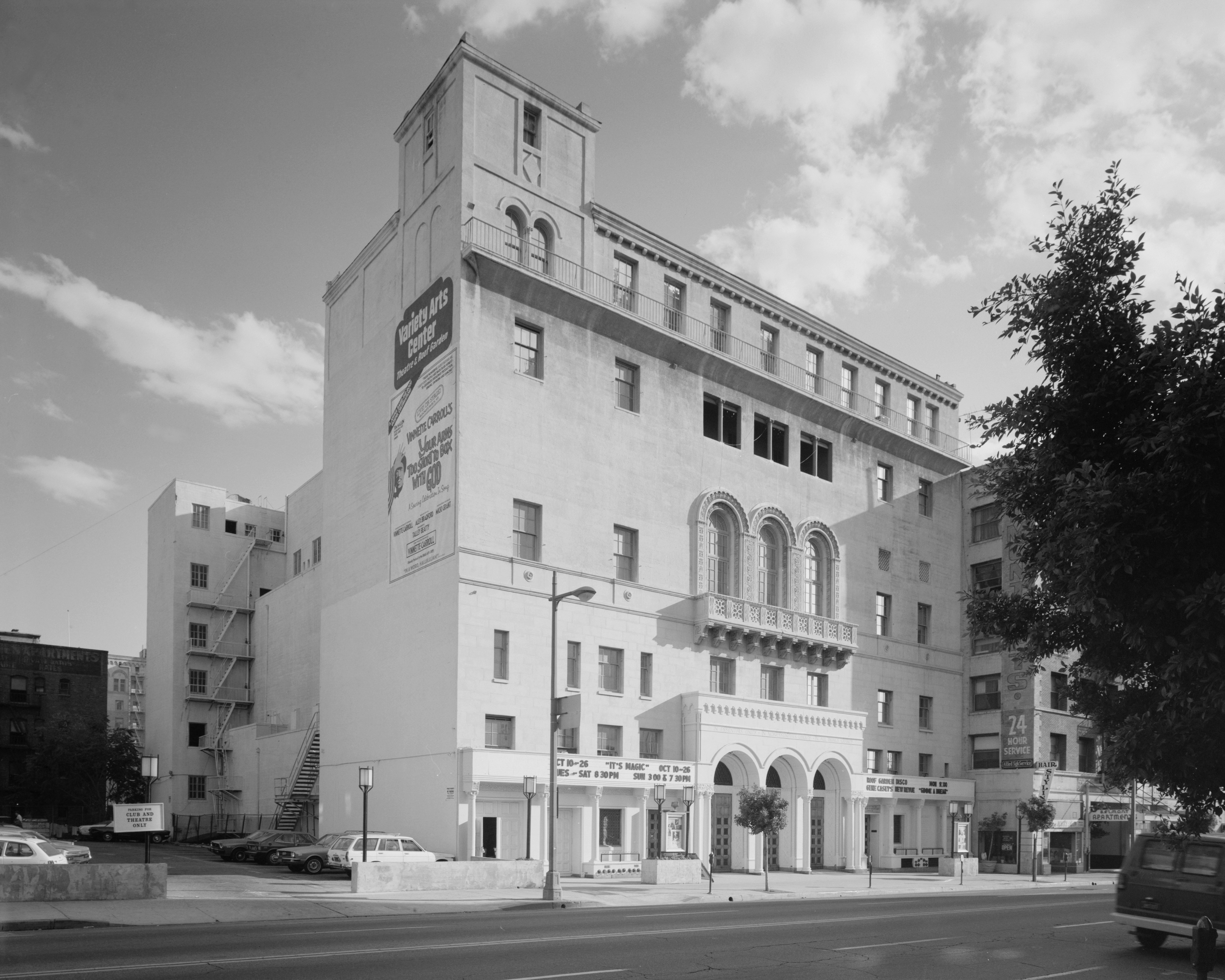 Friday Morning Club, 938-940 South Figueroa Street, Los Angeles (Los Angeles County, California) (cropped)